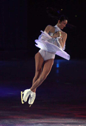 2008 Christmas On Ice in Yokohama